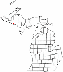 Locator map of Iron River — Iron County, Upper Michigan.